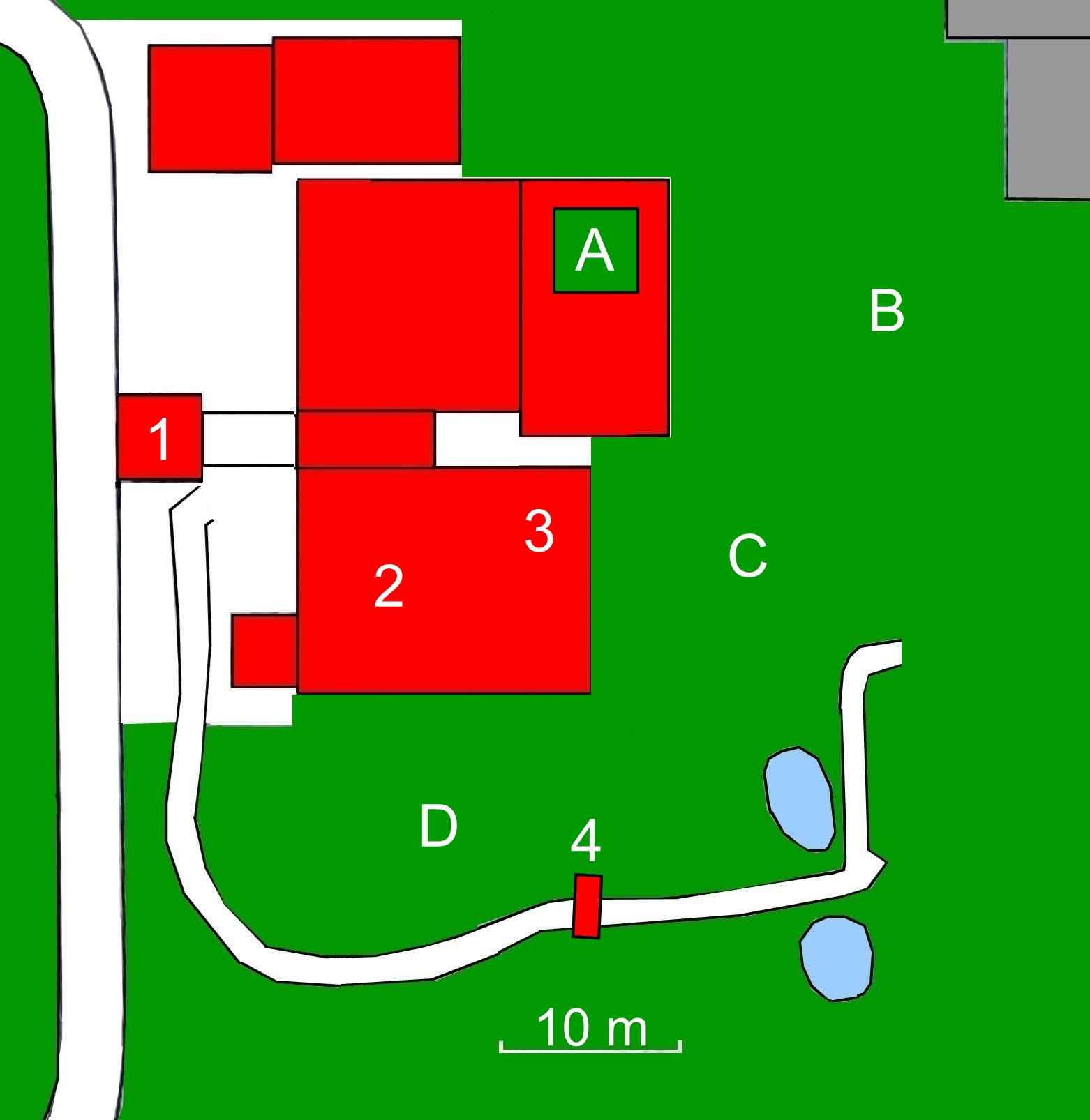 Layout of Keishun-in (Myôshin-ji) , Kyôto, Japan